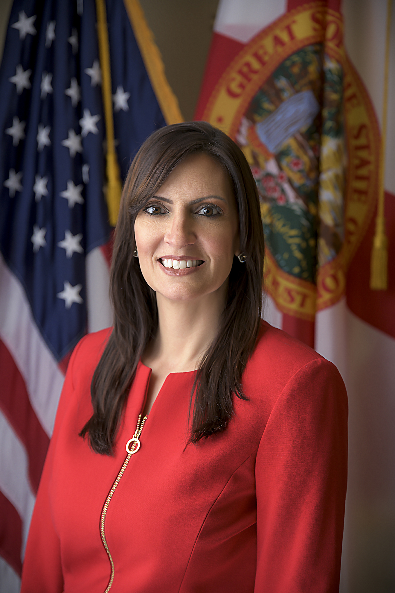 Depicted person: Jeanette Nuñez – 20th Lieutenant Governor of Florida